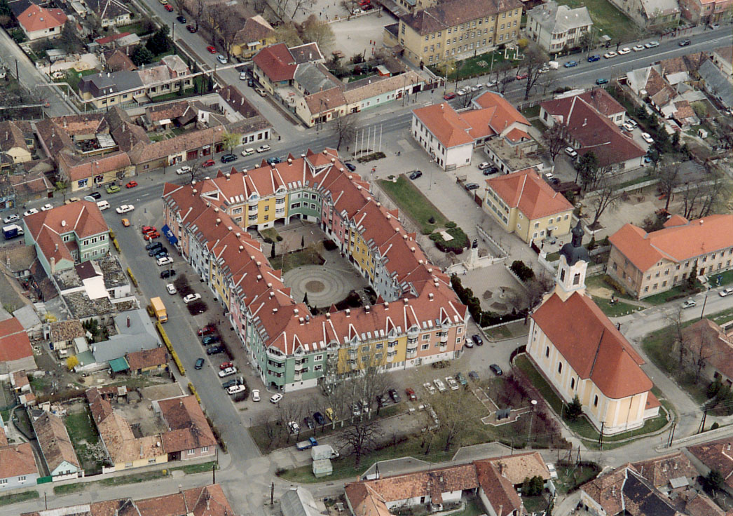 Dorog - Hungary - Europe